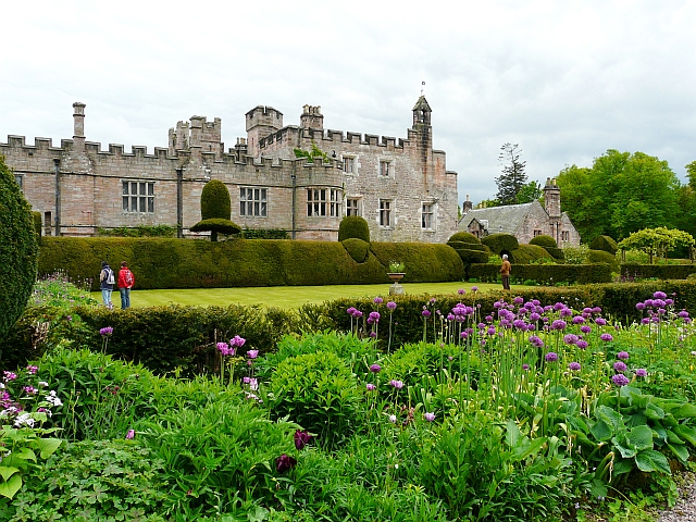 Hutton-in-the-Forest, part of walled garden